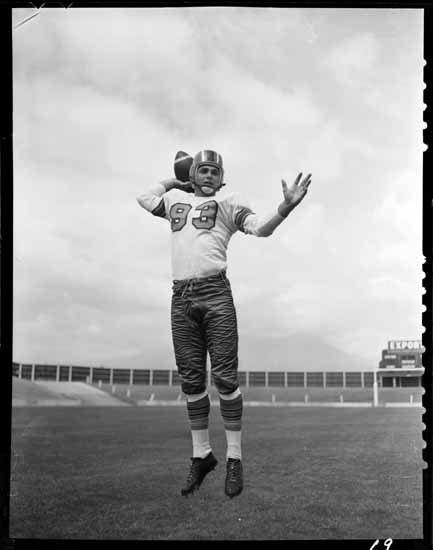 B.C. Lions football club, portraits, individual players, R. Clinkscale, # 93, Halfback and Quarterback VPL Accession Number: 84791R Date: August 21, 1955 Photographer / Studio: Jones, Art Content: Photo series 84791 to 84791AI Topic: Football players Portrait Stadiums Location: British Columbia - Vancouver - Hastings-Sunrise - Hastings Community Park Copyright Restrictions: Public Domain